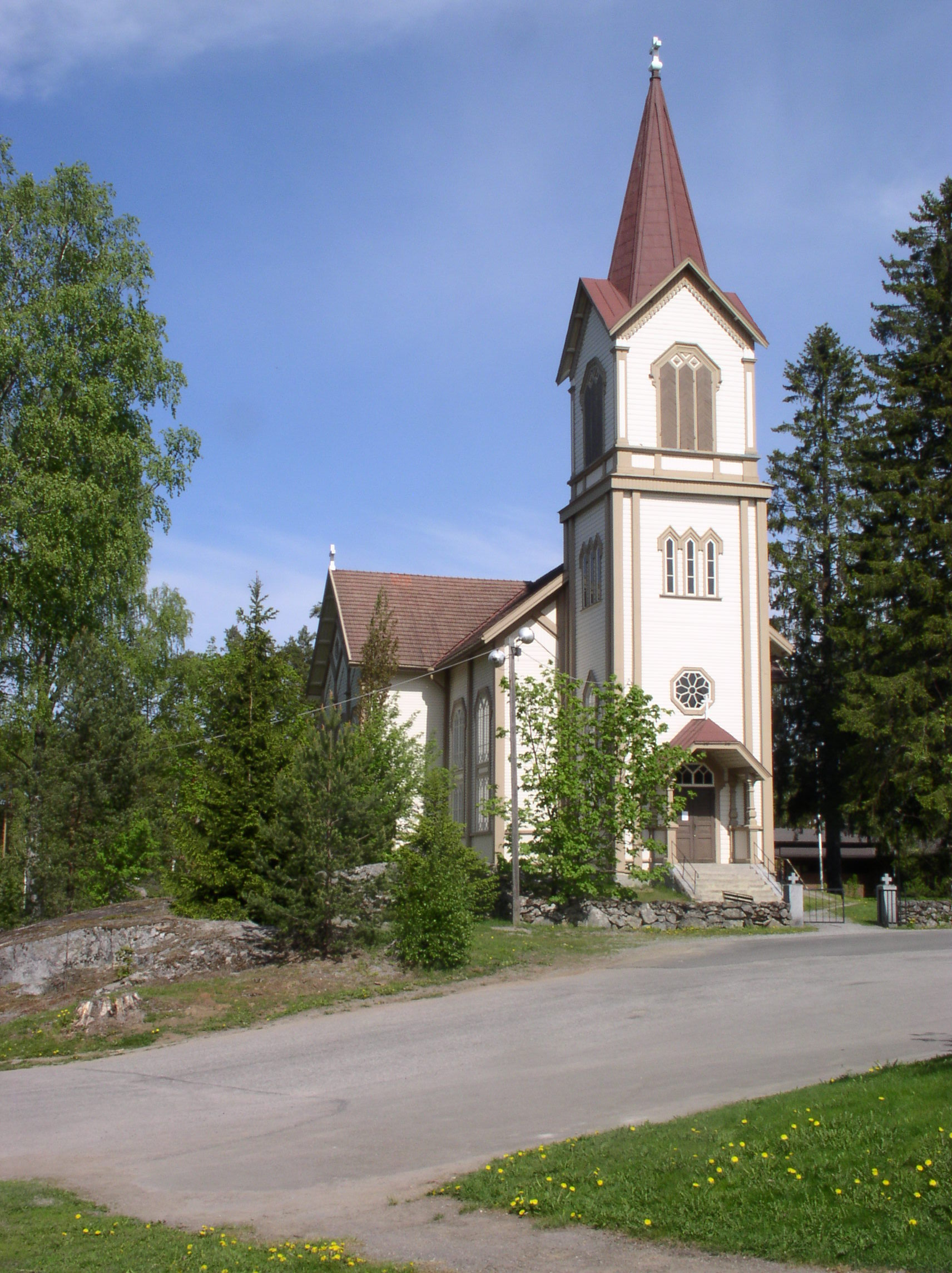 Enonkoski church in Enonkoski, Finland. Completed in 1886. Architect: Magnus Schjerfbeck.